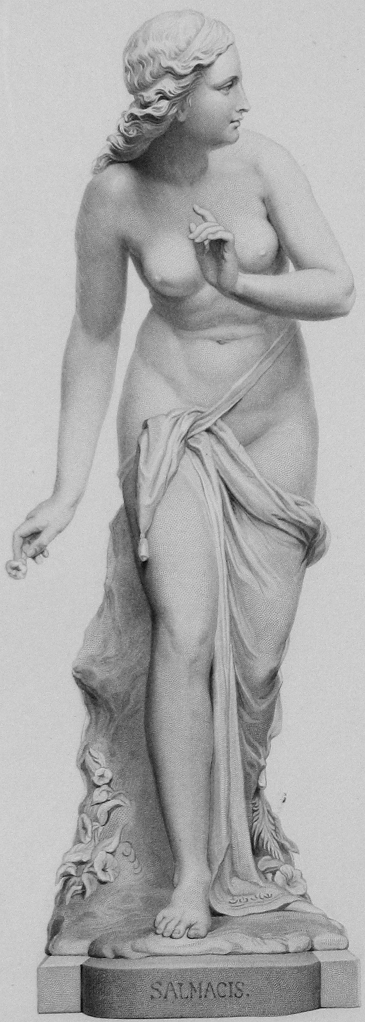 A 19th century engraving by G. Stodart showing a statue of Salmacis by Sir Thomas Brock, taken from an Art Journal dated 1870.